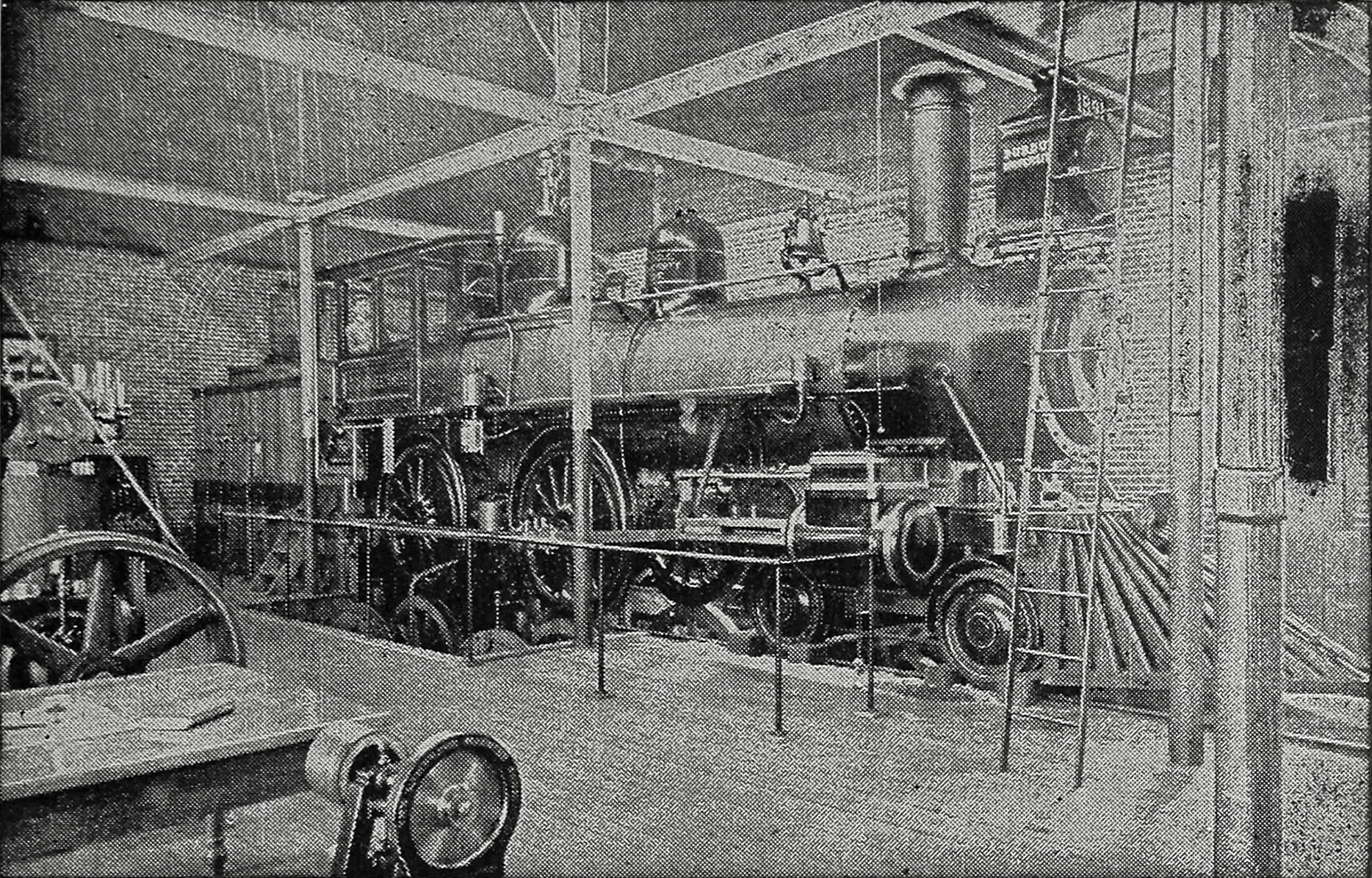 Cassier's Magazine of August 1892 had an article on page 248-260, in its series Technical Schools of America, describing the Purdue University. It was accompanied by a number of illustrations, including this, on page 251, showing the 85.000 pound Schenectady Locomotive in the Engineering Laboratory.